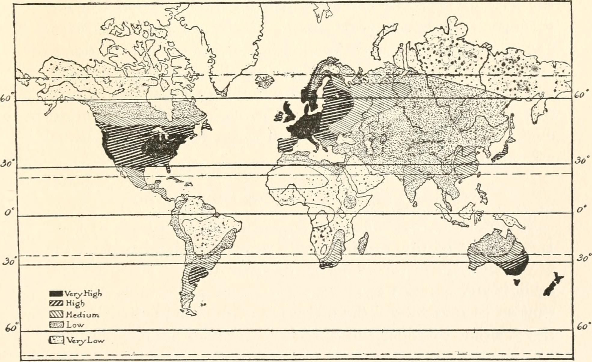 Title: The evolution of the earth and its inhabitants; a series delivered before the Yale chapter of the Sigma xi during the academic year 1916-1917 Year: 1918 (1910s) Authors: Barrell, Joseph, b. 1869 Schuchert, Charles, 1858-1942 Woodruff, Lorande Loss, 1879-1947 Lull, Richard Swann, 1867- Huntington, Ellsworth, 1876-1947 Subjects: Evolution Climatology Human beings -- Influence on nature Earth Publisher: New Haven, Yale university press (etc., etc.) Text Appearing Before Image: 60 FIG. 36.—The distribution of human energy on the basis of climate.From Civilization and Climate. jso iso no 1*0 100 so 60 10 sia za -to 60 so 100 no 1*0 reo 80 Text Appearing After Image: FIG. 37.—The distribution of civilization. From Civilization and Climate. i74 EVOLUTION OF THE EARTH such a way that the opinion of each of five groups, namelyAmericans, British, Teutonic Europeans, Latin Europeans, andAsiatics, has equal weight. The agreement of the two mapsis surprising. It indicates that at the present time the dis-tribution of climatic energy and that of civilization are almostidentical. Such differences as are discernible occur almostwholly where exact information is lacking or where the pres-ence of Europeans as colonial rulers raises the apparentstandard of civilization. This brings us to the climax of our discussion. At thebeginning of this lecture we saw that human progress, that is,the growth of civilization, depends in apparently equal measureupon inherent mental capacity, material resources, and energy.We then saw that although inherent capacity has no relationto present climatic conditions, it is closely intertwined withthose of the past. We also saw th